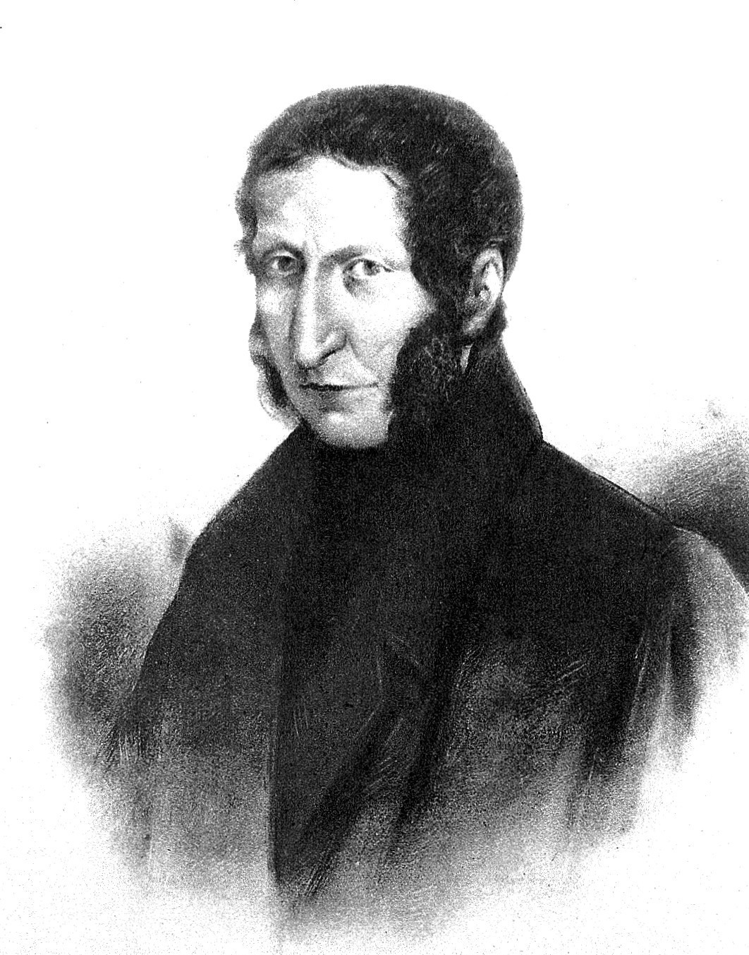 Portrait of Agostino Bassi. Presented by Dr. G.C. Ainsworth